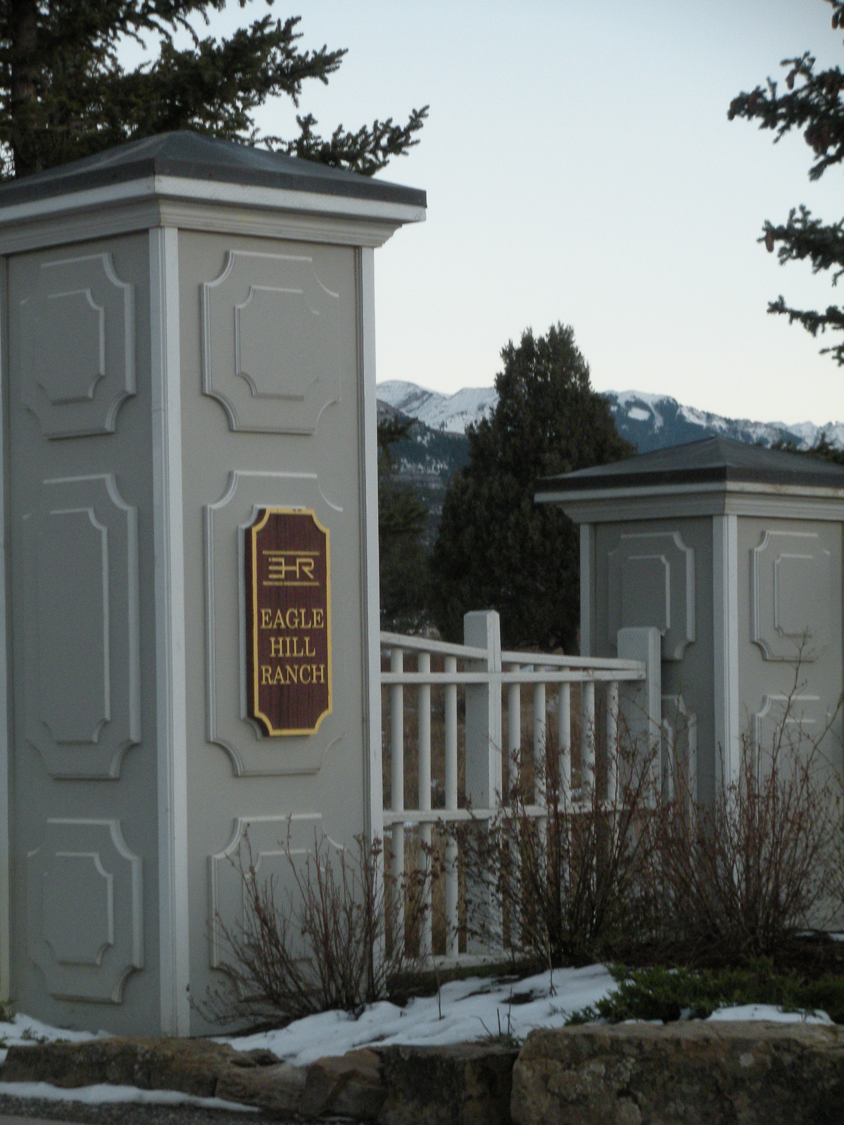 A pillar of entry way to Eagel Hill Ranch, a development of Ridgway, Colorado